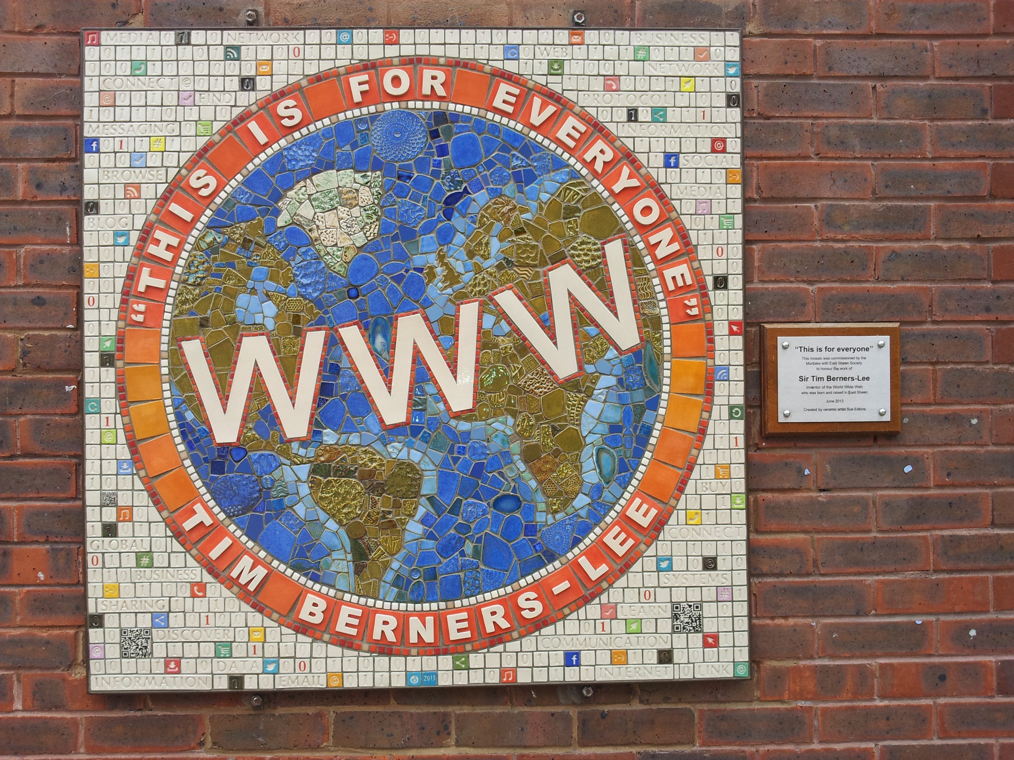 Mosaic by Sue Edkins at Sheen Lane Centre, East Sheen, London Borough of Richmond upon Thames, to honour Tim Berners-Lee